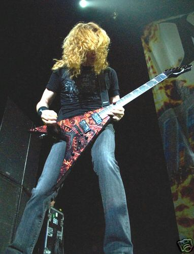 Dave Mustaine, May 2007